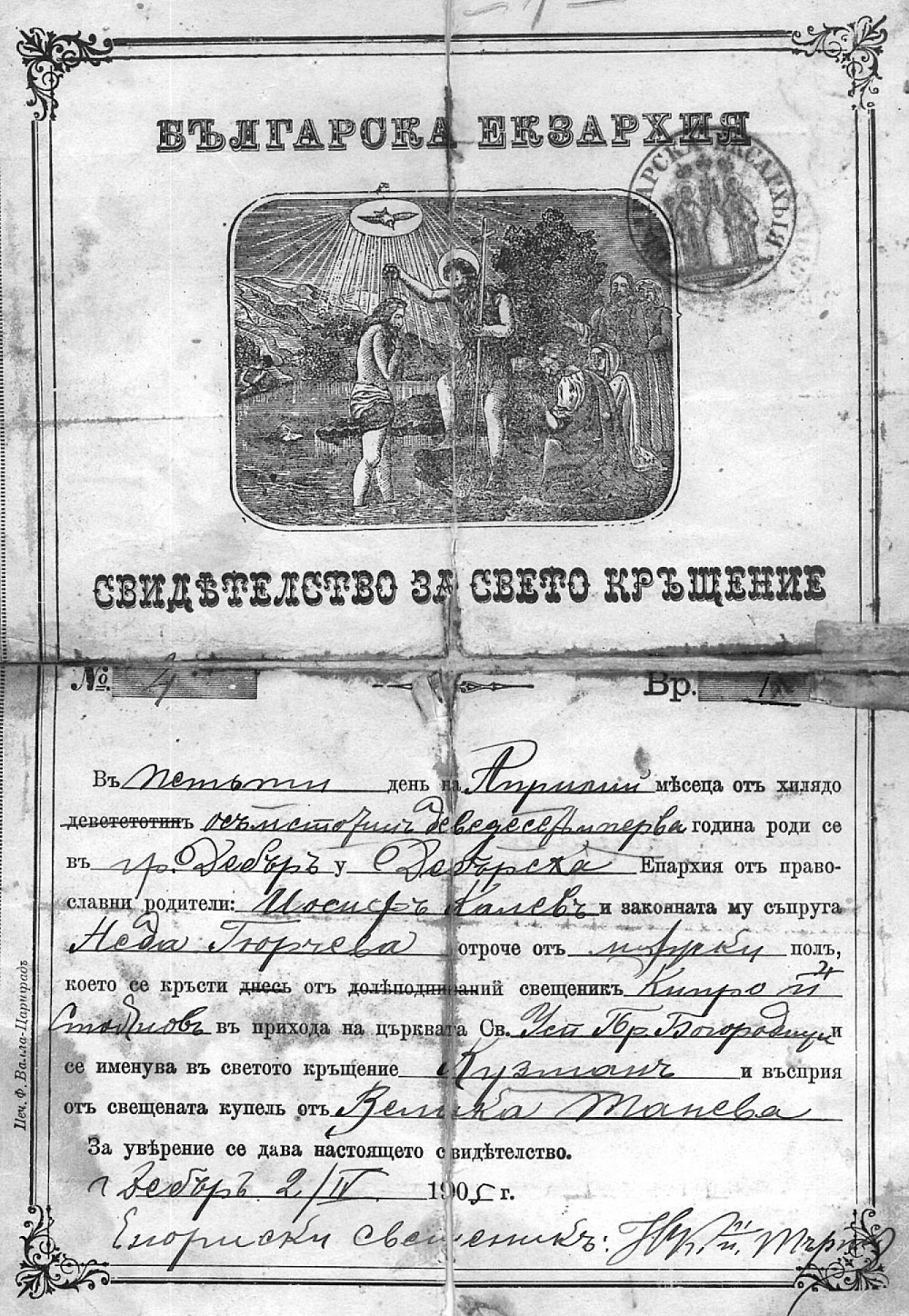 Kuzman Yosifov Birth Cetificate Transcript 1905